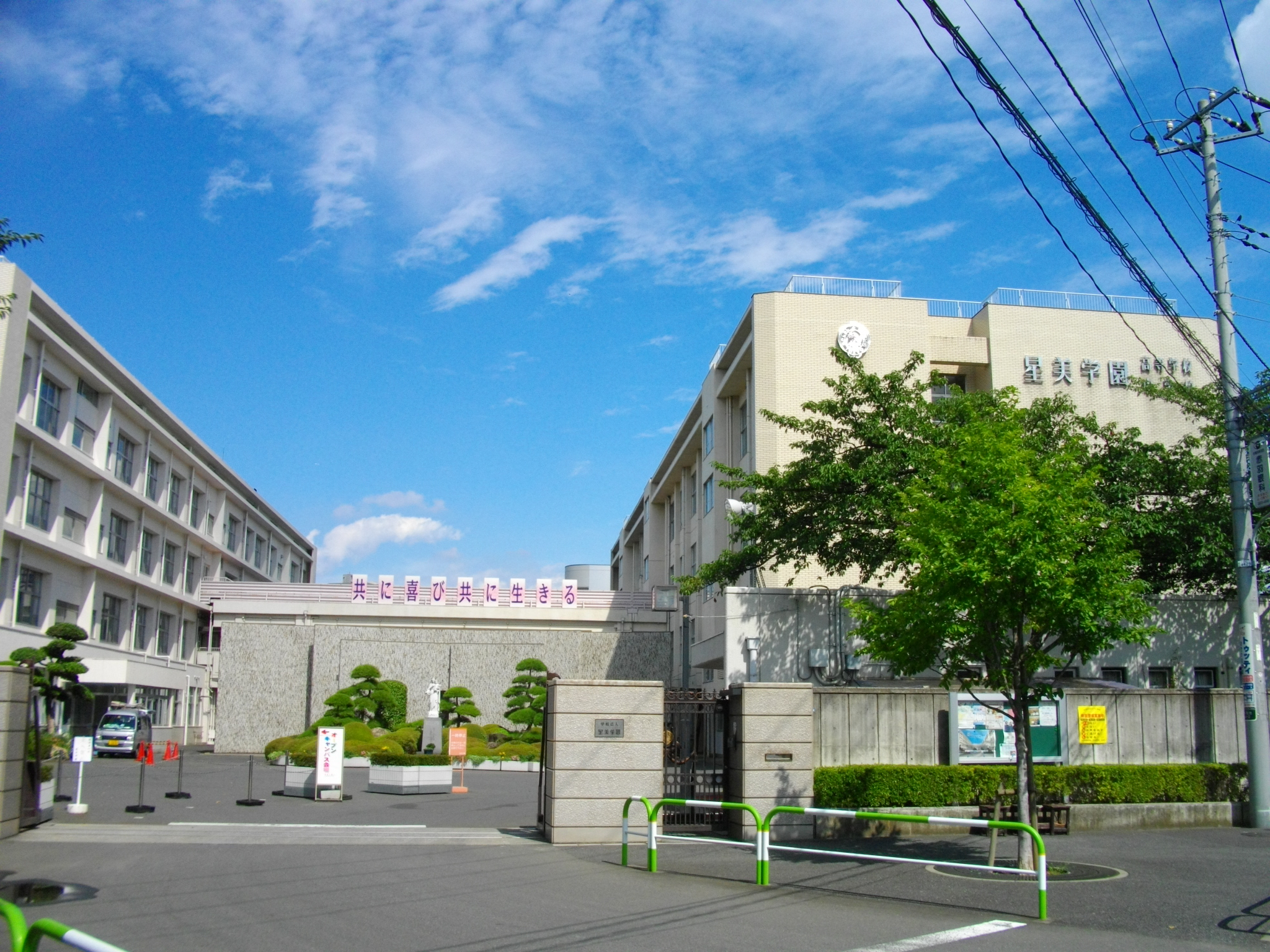 Seibi Gakuen Junior & Senior High School